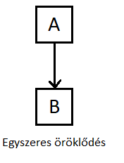 Egyszeres öröklődés illusztrációja